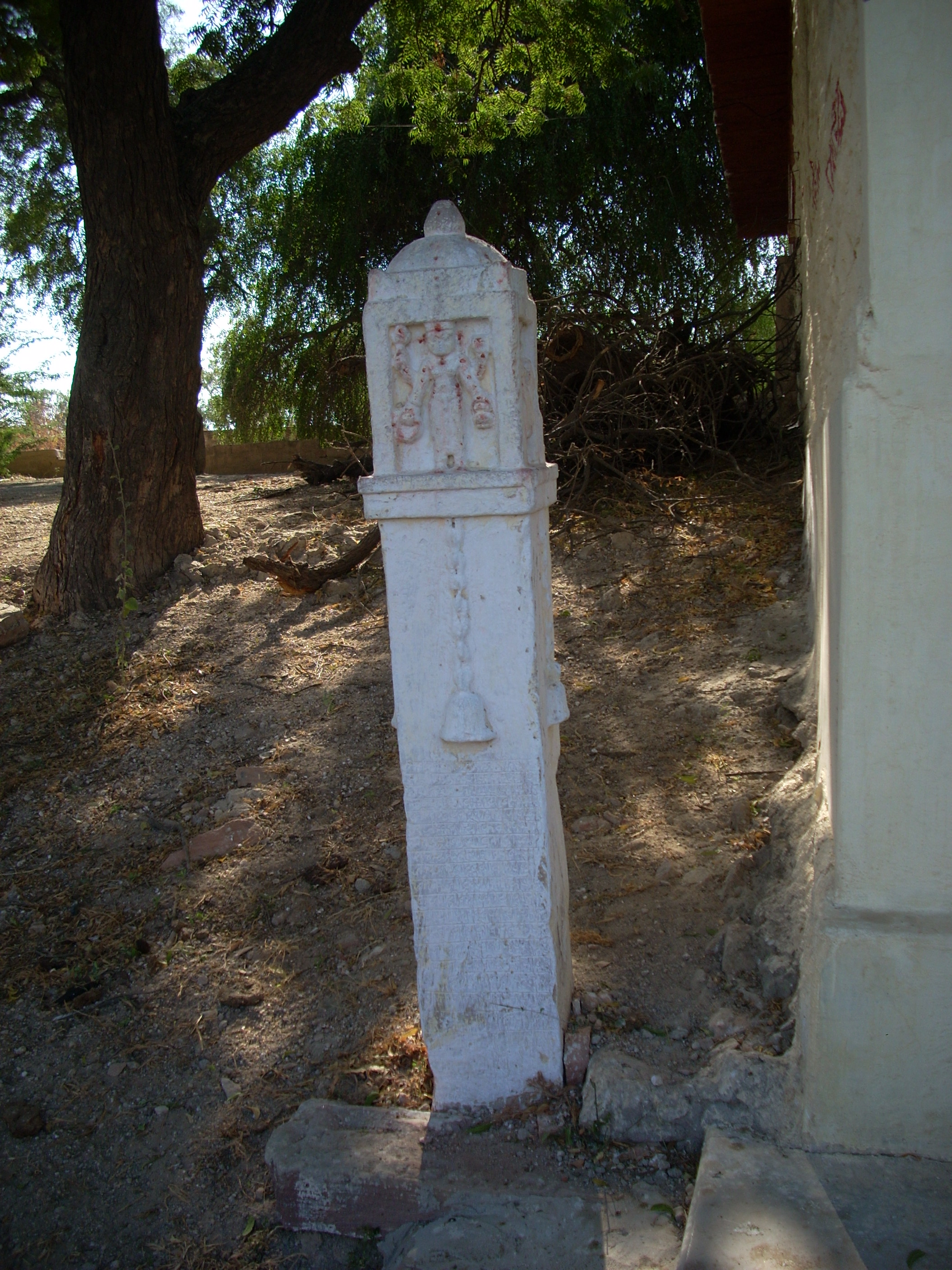 landmark